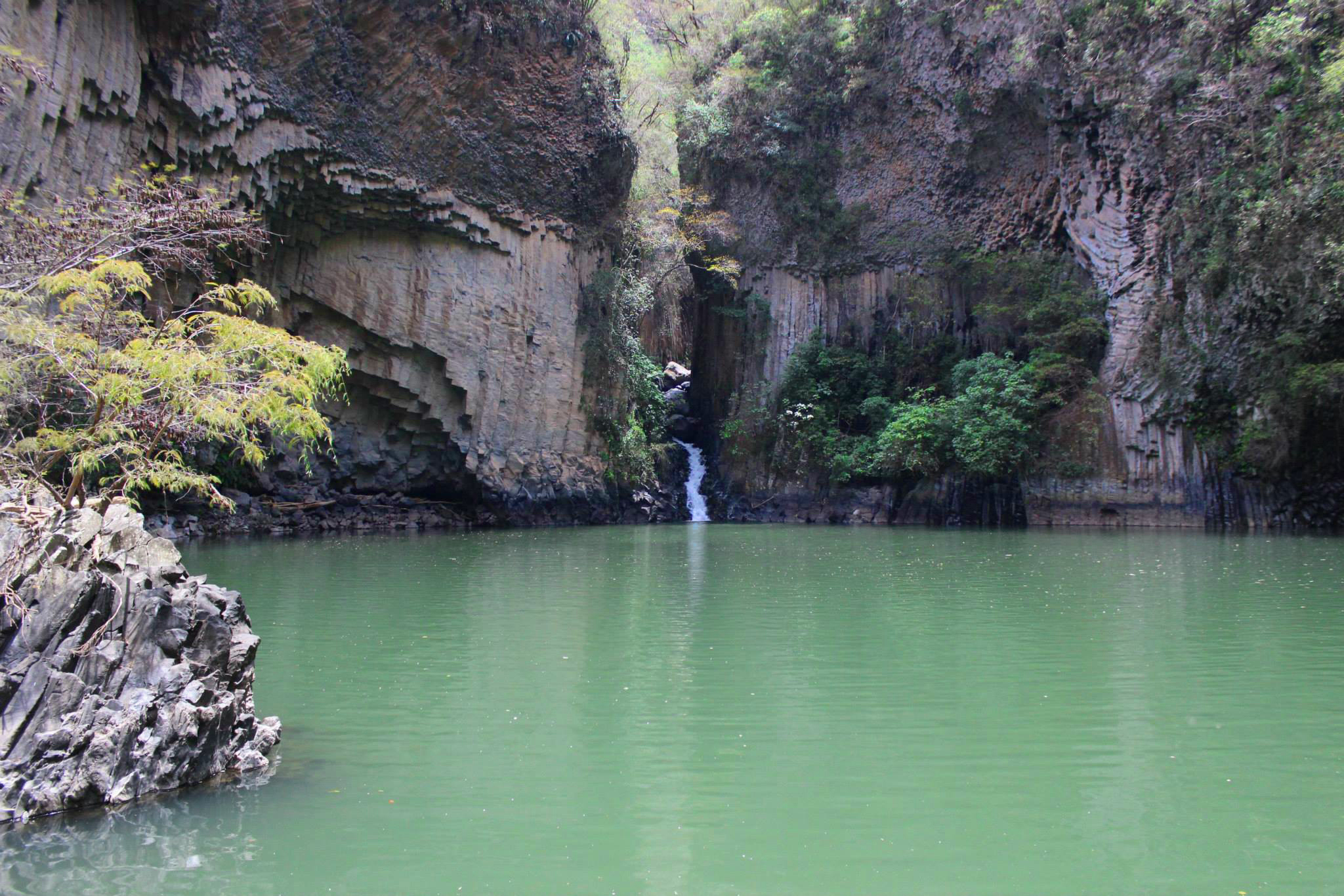 Basalt columns in Mascota, Flor De La Vida Retreat Jalisco, Mexico.